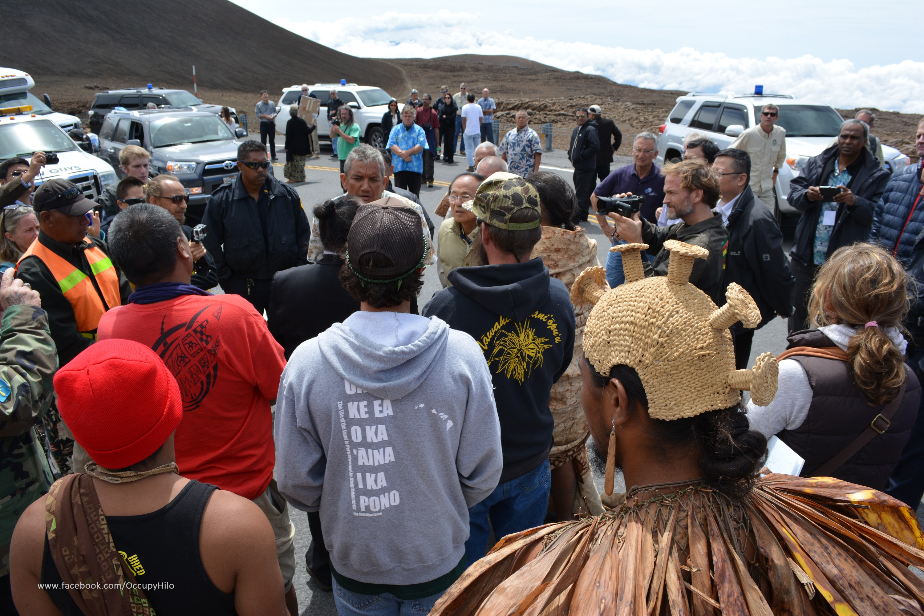 Thirty Meter Telescope protest, October 7, 2014 Kahookahi Kanuha and others at the blockade line talking with Mayor billy Kenoi